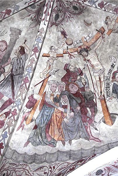 Tågerup Kirke (church)